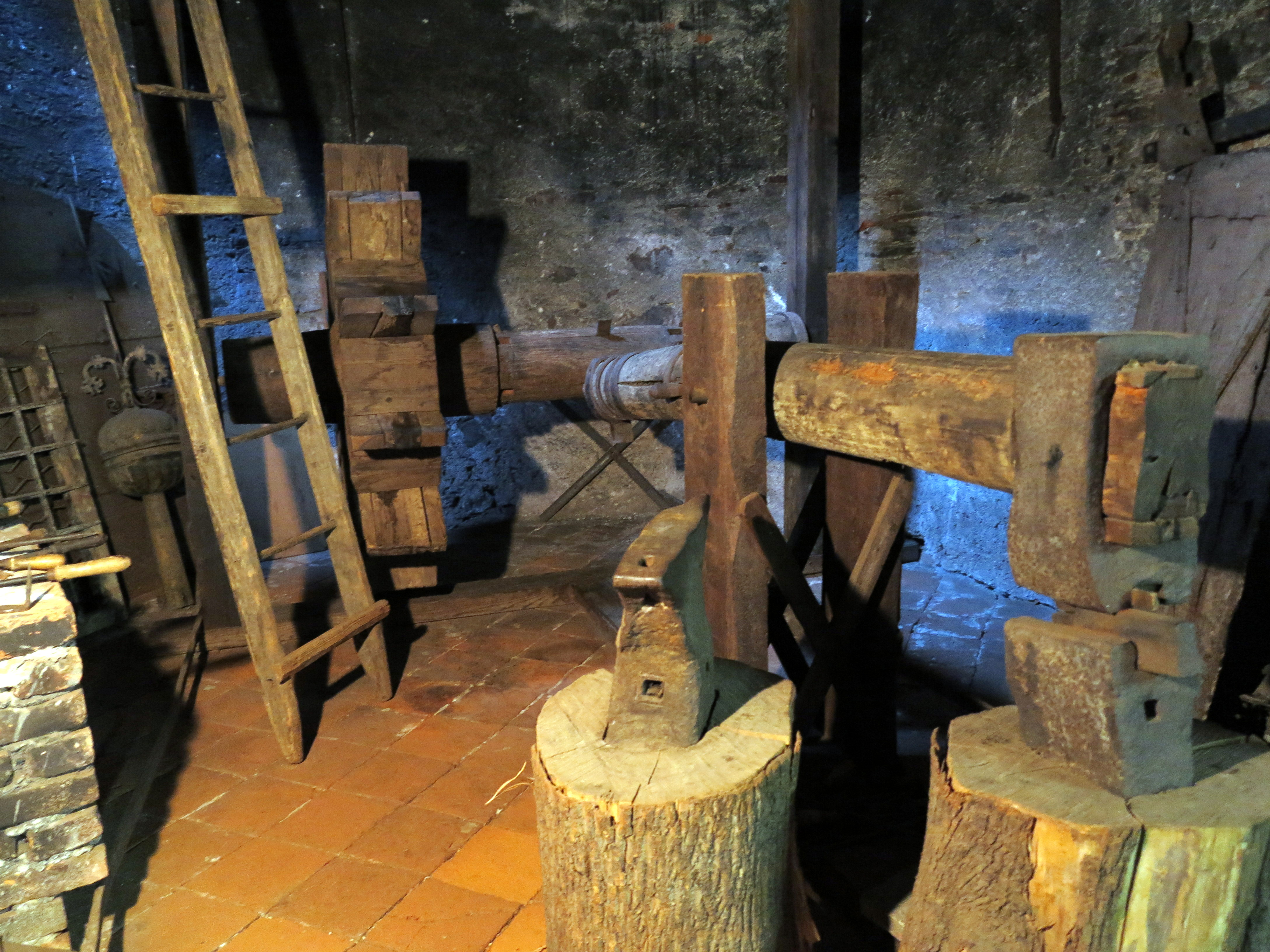 The Nageler tail hammer, a heavy hammer (Trip hammer), water-powered, once in the village glassblower Tscherniheim issued today at the Museum of Folk Culture in Spittal an der Drau in Carinthia / Austria / EU. The hammer is driven by an overshot waterwheel. It was the hammer of the forge, the tools manufactured. In the center stands an anvil. In the background is a wooden ladder.